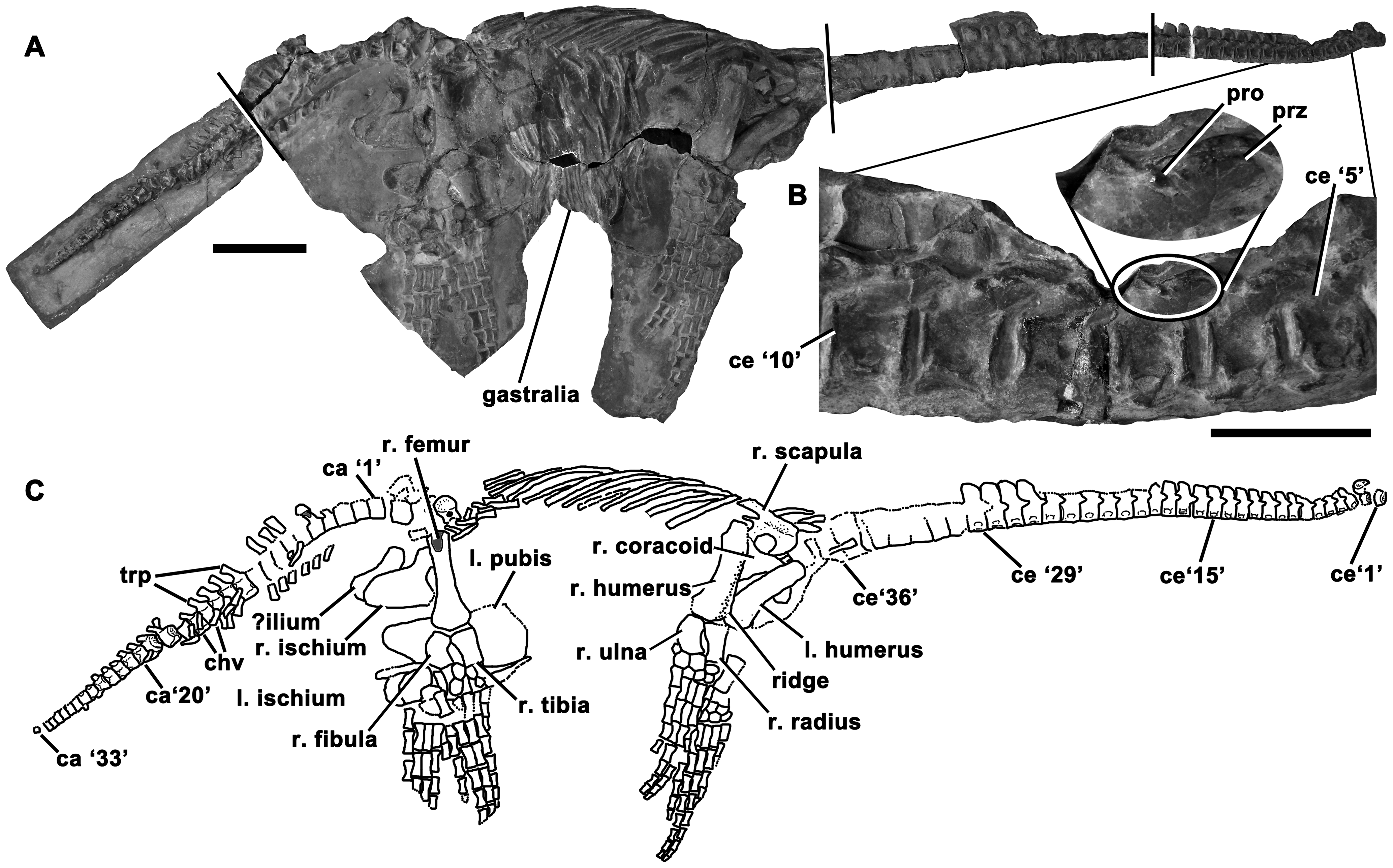 Holotype of Eoplesiosaurus antiquior (TTNCM 8348) in right lateral view. Image in A is a composite made from four photographs (divisions are indicated by black and white lines), with enlargement of anterior cervical vertebrae (B; magnified portion is enlarged x2.0 times). Gastralia are not shown in line drawing (C). Abbreviations: ca, caudal vertebra; ce, cervical vertebra [number following indicates order in preserved series]; chv, chevron; l., left [followed by name of element]; pro, lateral projection; prz, prezygapophysis; r., right [followed by name of element]; trp, transverse process. Scale bars equal 200 mm (A, C) and 50 mm (B).